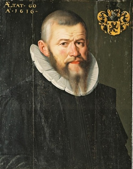 A portrait of Sibrandus Lubbertus (c. 1555–1625) (also known as Sibrand Lubbert or Sybrandus Lubbertus), a Dutch Calvinist theologian who was a professor of theology at the University of Franeker for forty years from the institute's foundation in 1585.